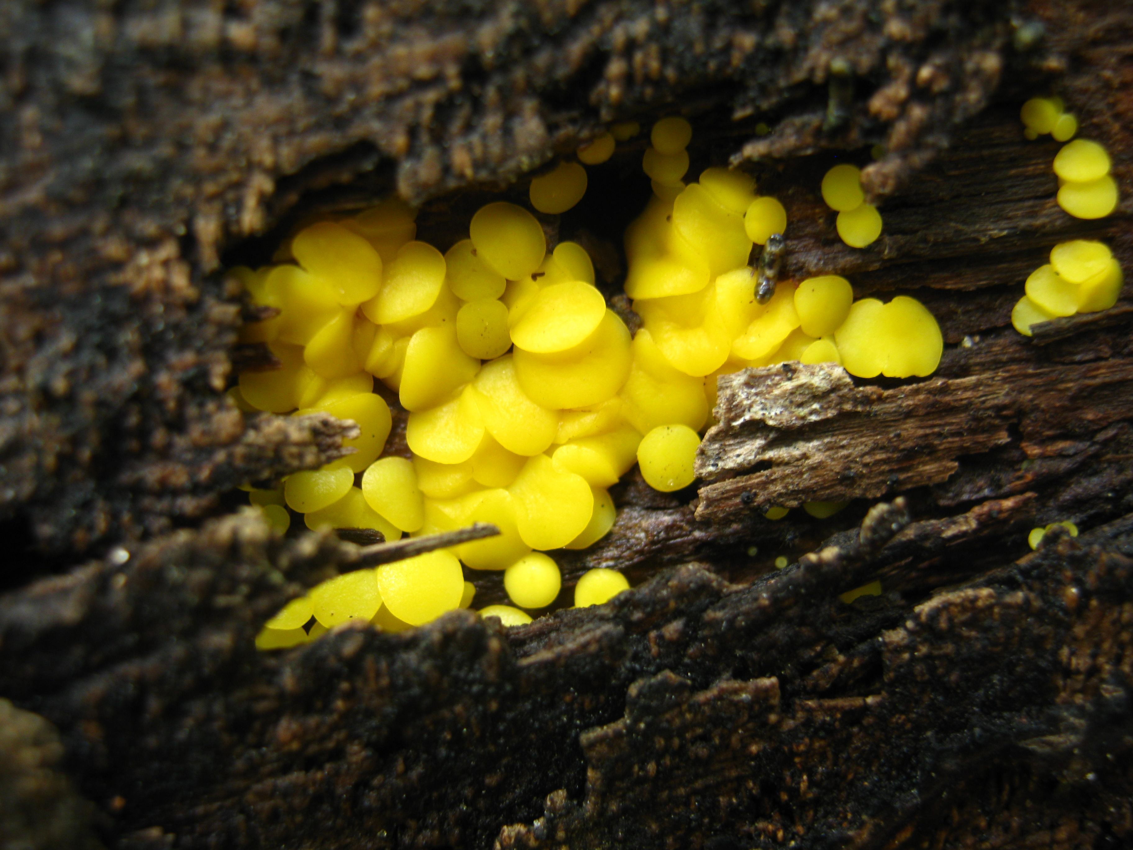 Bisporella citrina (Batsch) Korf & S.E. Carp. Location: Forest near Elgin Street, Pembroke, Ontario, Canada Observation Notes: Found in Zone 01 on probable hardwood. For more information about this, see the observation page at Mushroom Observer.